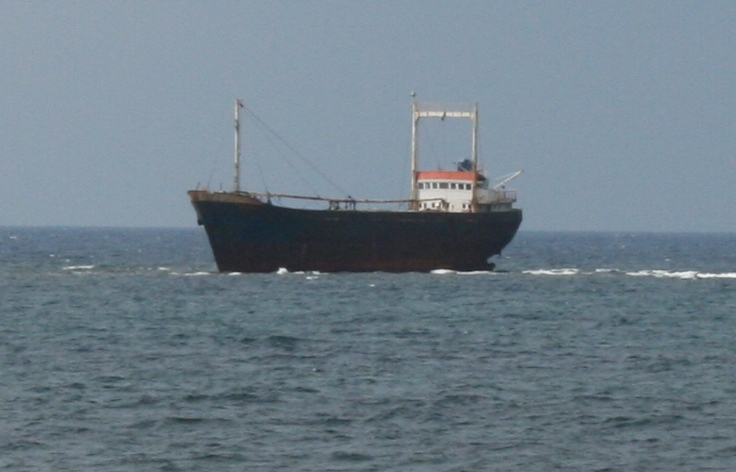 gounded Demetrios II near Cyprus.